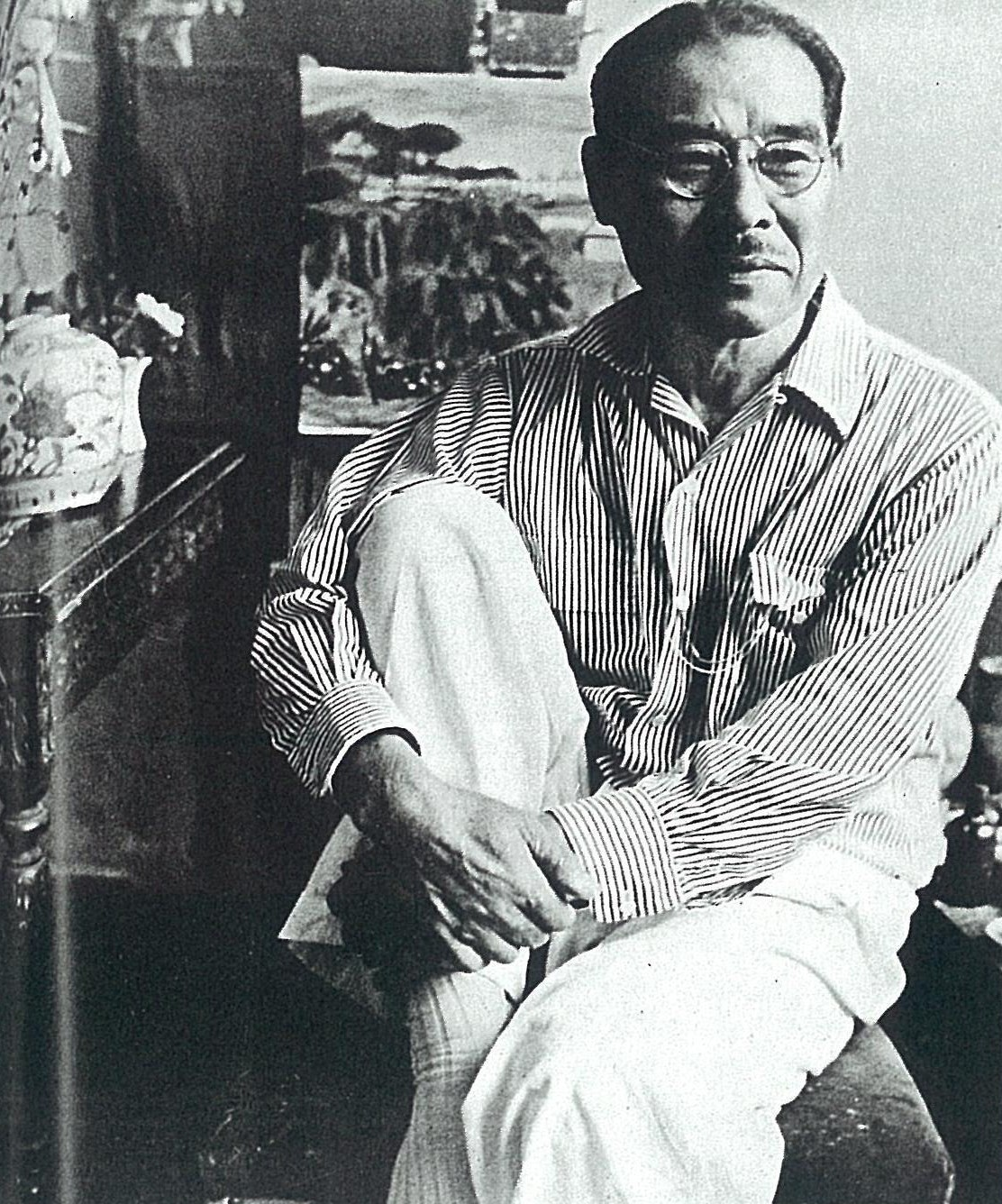 Zensaburo Kojima is a Japanese painter. This photo took in 1960.